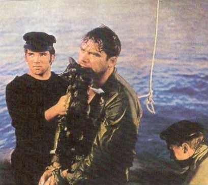 Scene from the movie Black Seed (1971)